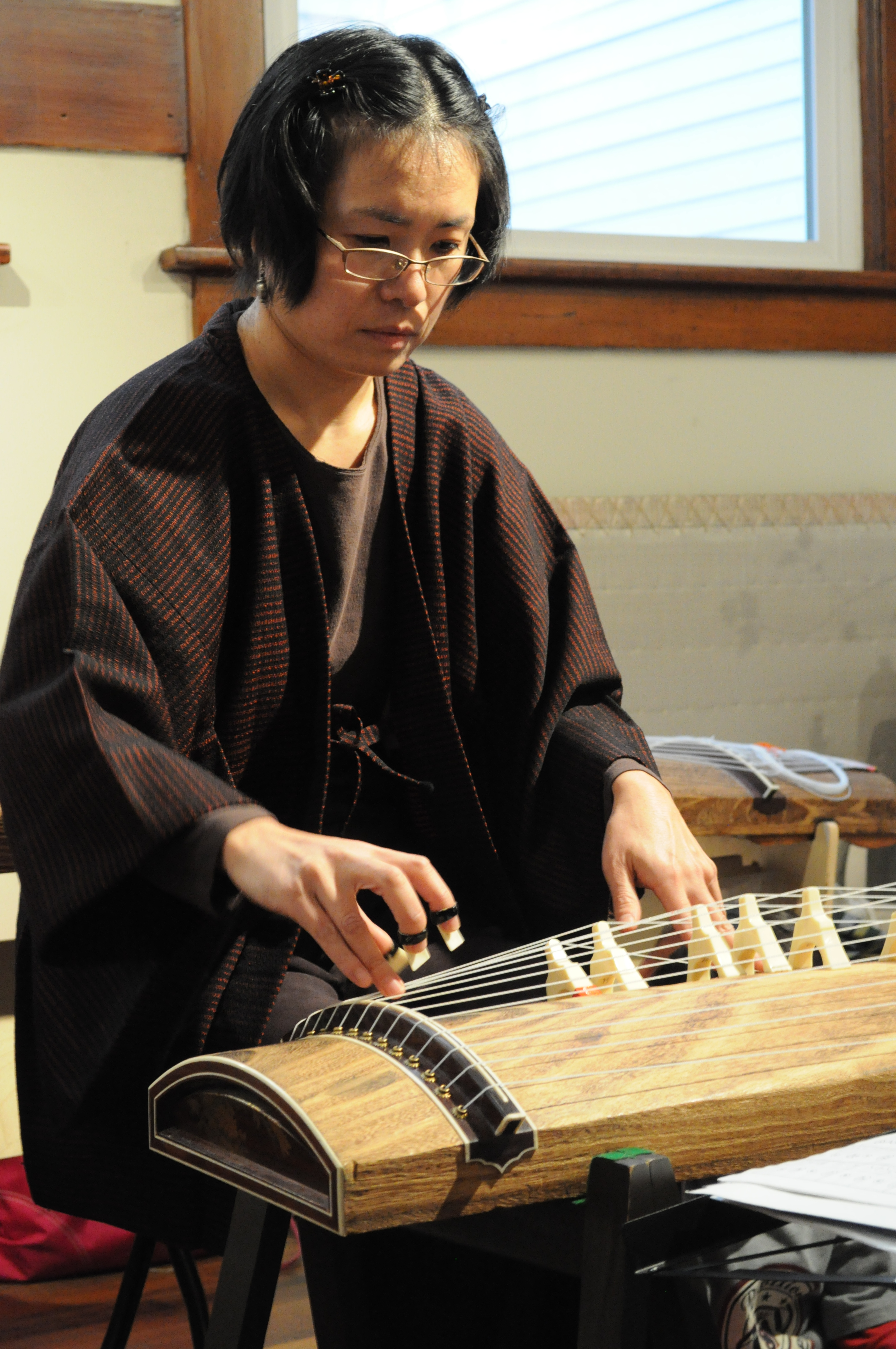 Koto performance during Bunka No Hi, annual Japanese Culture Day at Seattle's Nihon Go Gakko / Japanese Cultural & Community Center.